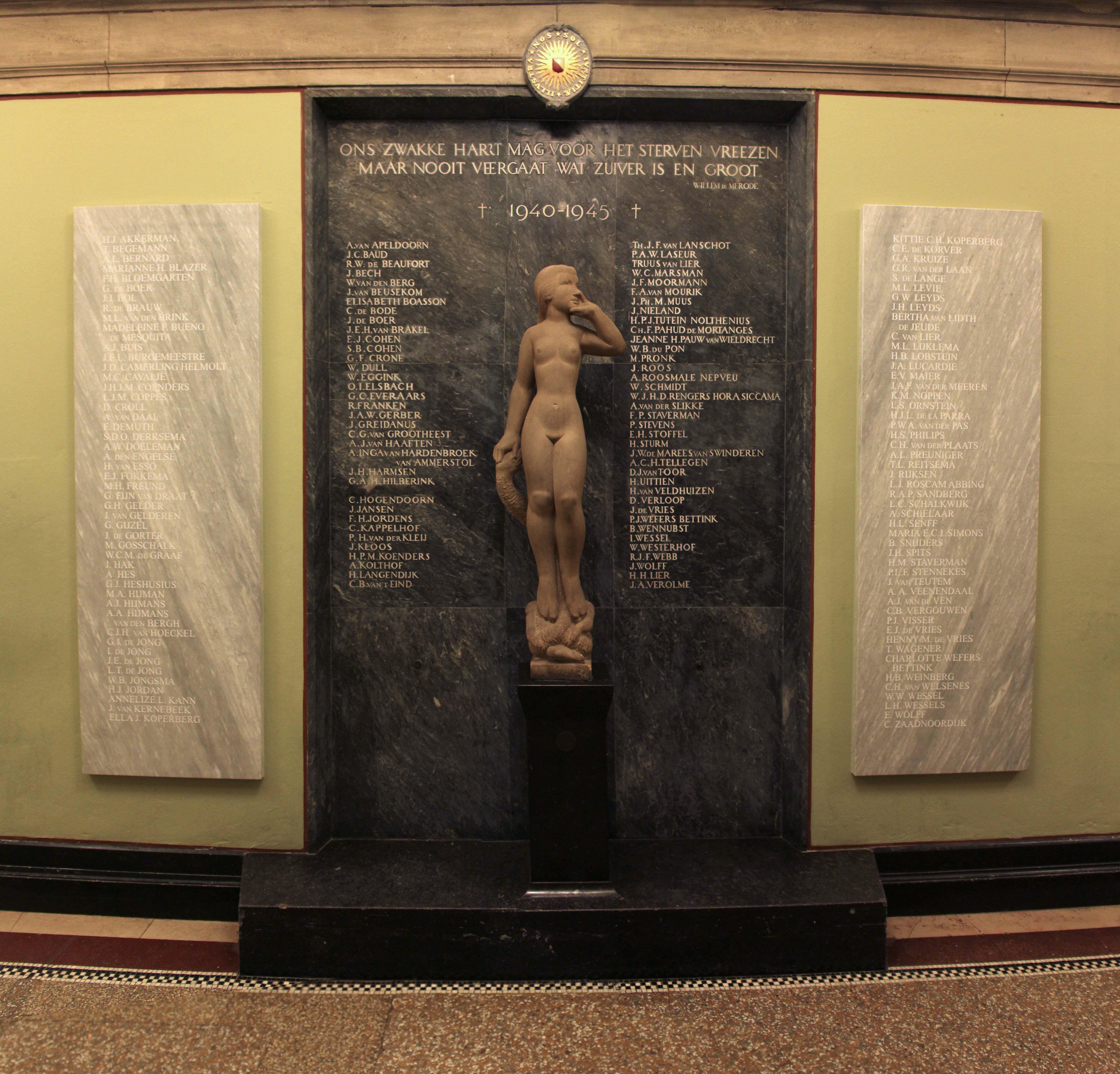 Details of the enterior of the academy building in Utrecht